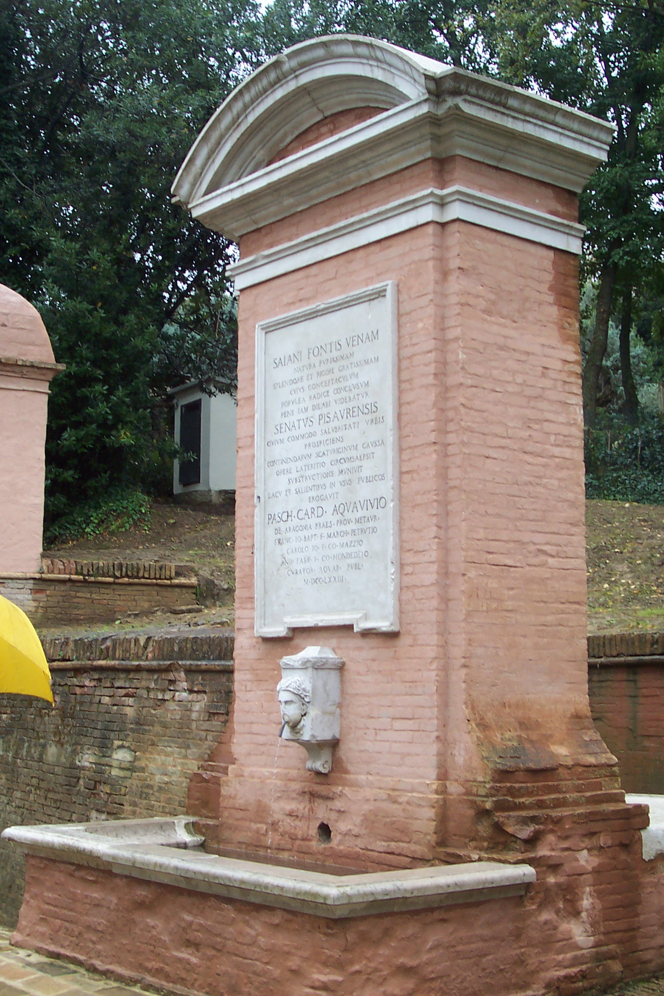 Fonte di Sajano